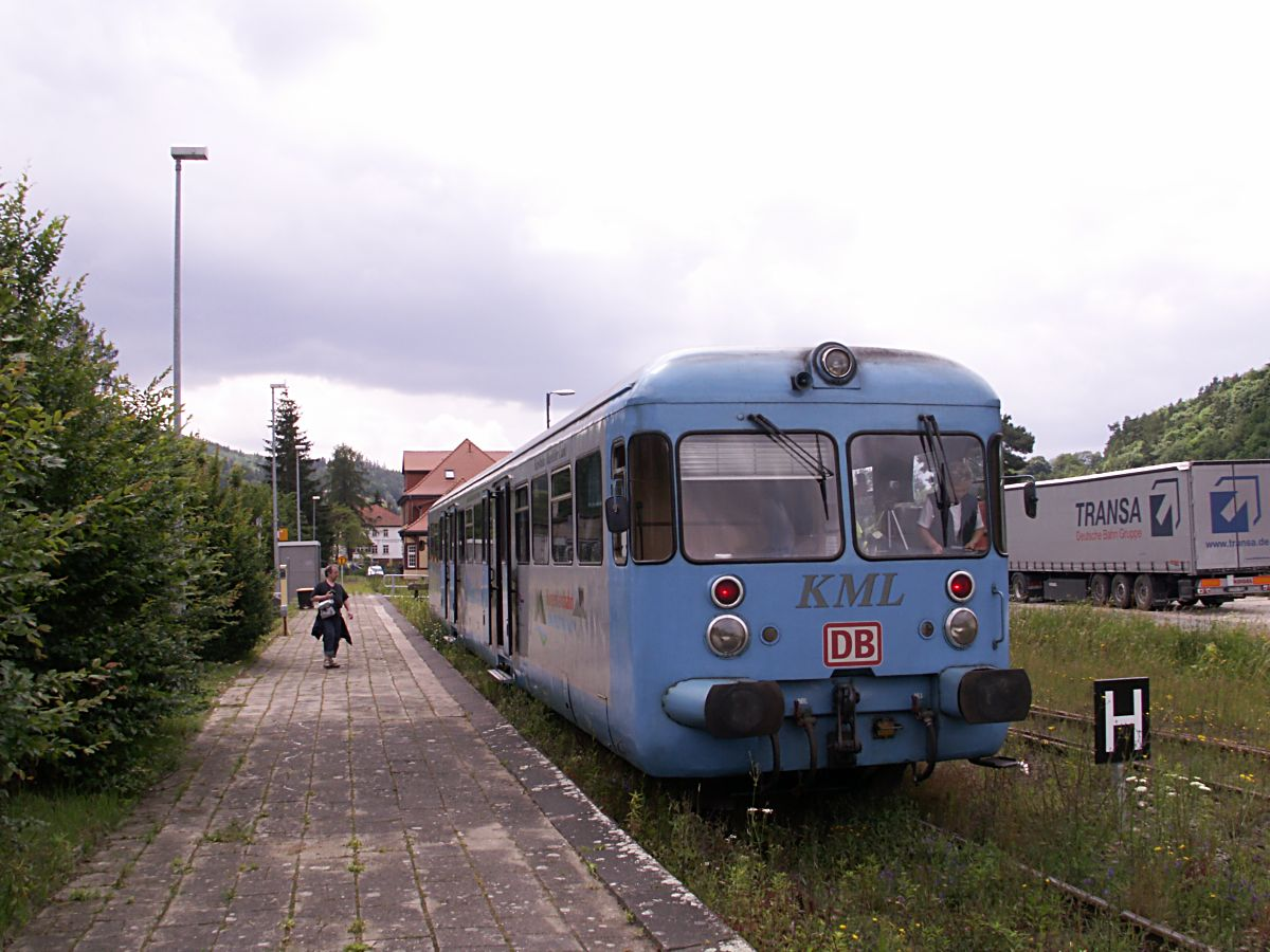 Bahnhof Wippra